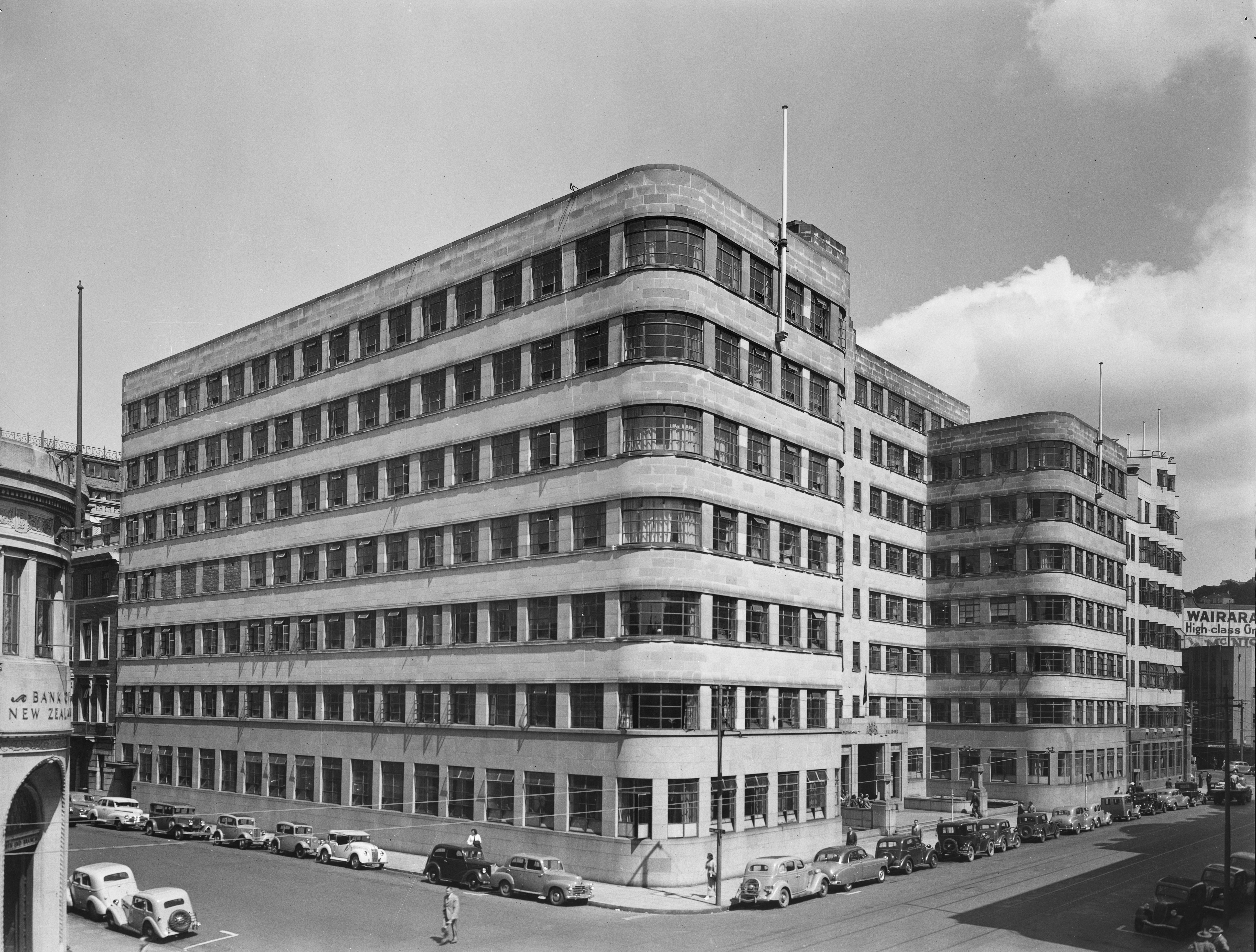 Departmental Building (Defence House), Stout St, Wellington, 1939, by Gordon Burt, Gordon H. Burt Ltd. Te Papa (C.002640) Photograph taken circa 1952 (cars)